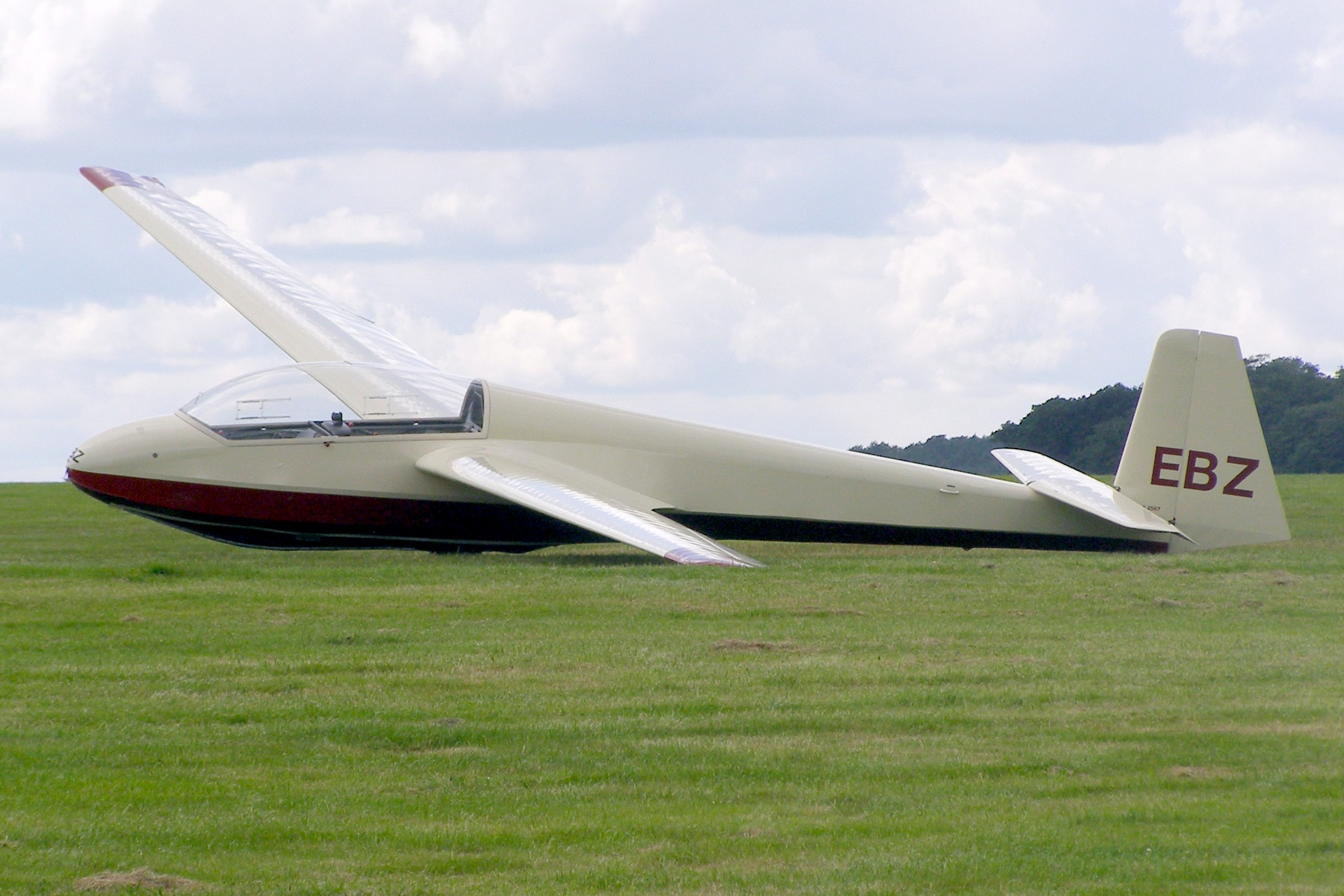 Schleicher ASK 13 EBZ of the Booker Gliding Club at Booker, England